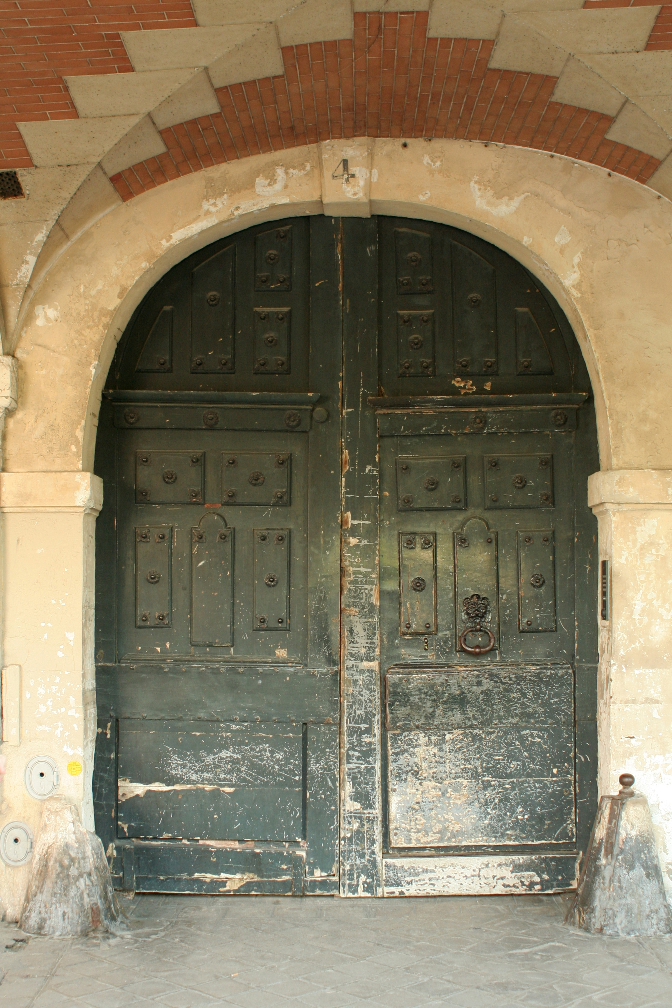 Door of 4 Place des Vosges, Paris.